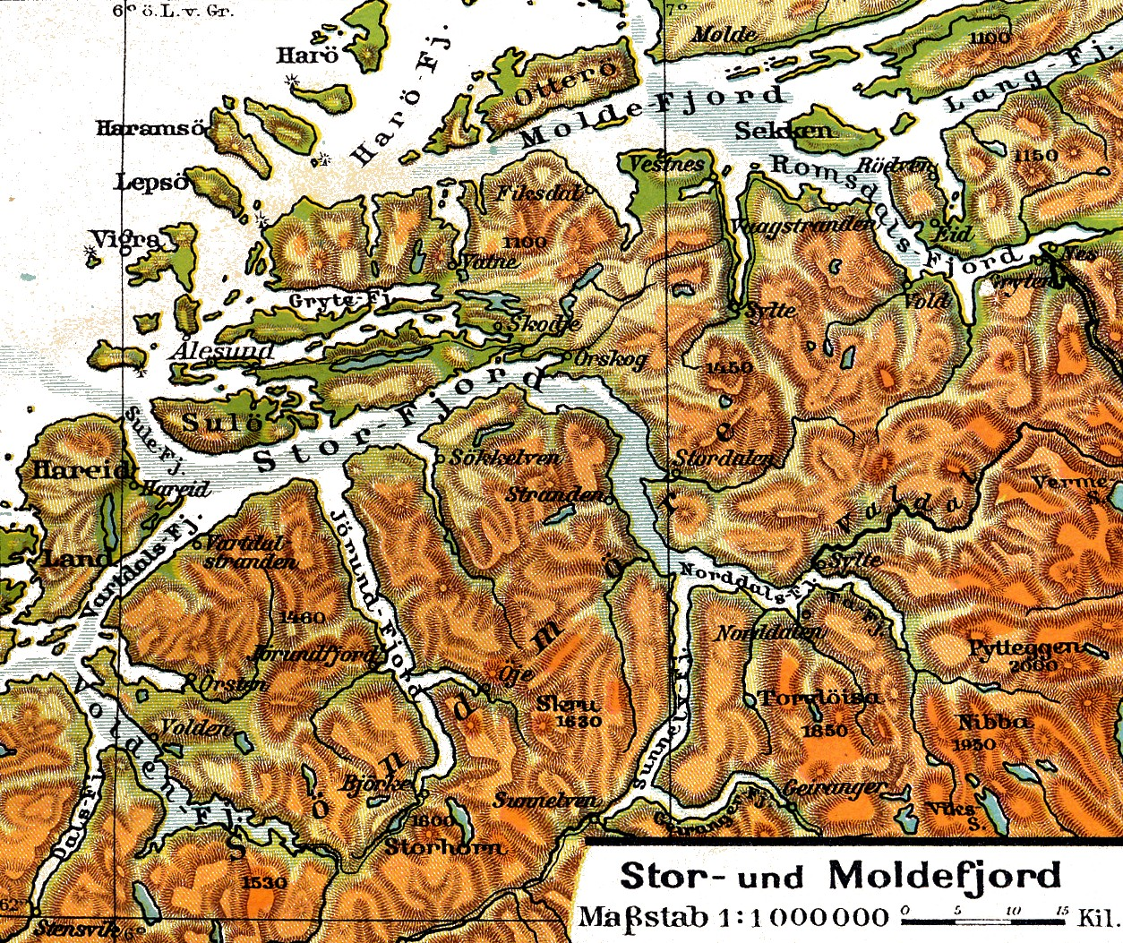 European cities and landscapes, Storfjorden and Moldefjorden